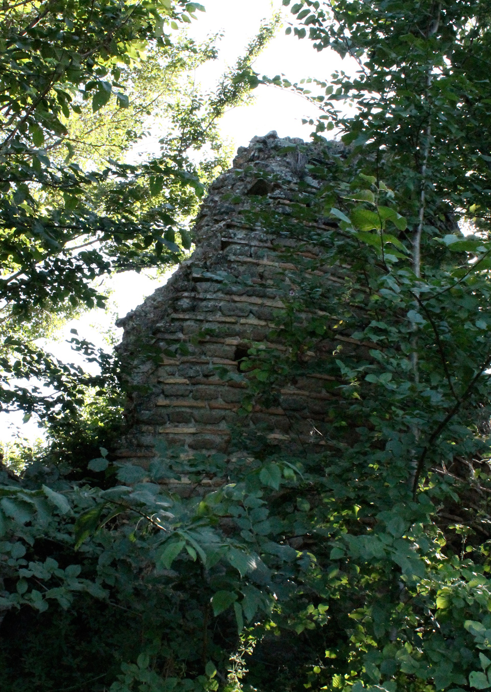 Anguillara Sabazia, roman villa of "Mura di Santo Stefano", ruins of the church (apse)